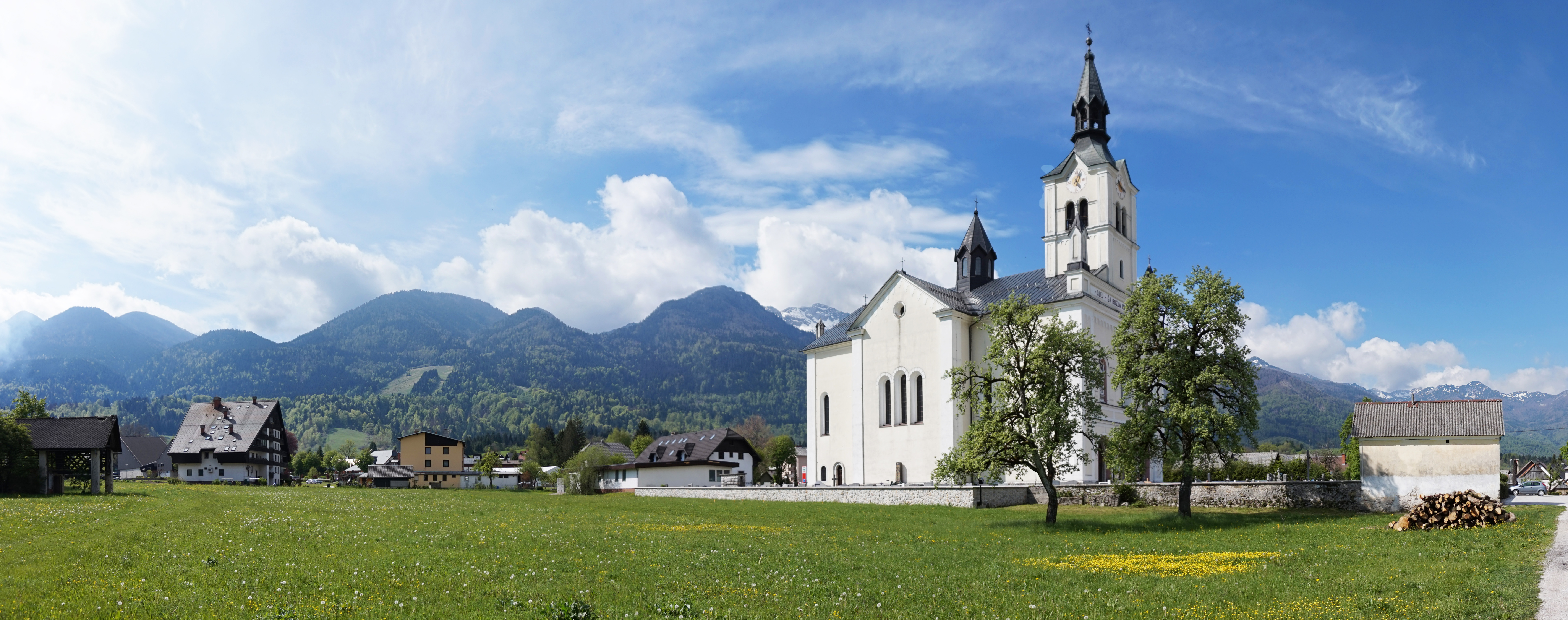 The church in Bohinjska Bistrica, Slovenia.This photograph was taken with a Sony ILCE-5000